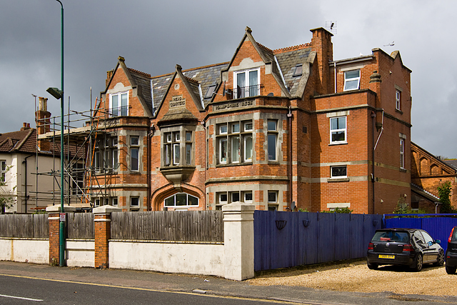 Former Drill Hall, 177 Holdenhurst Road, Bournemouth